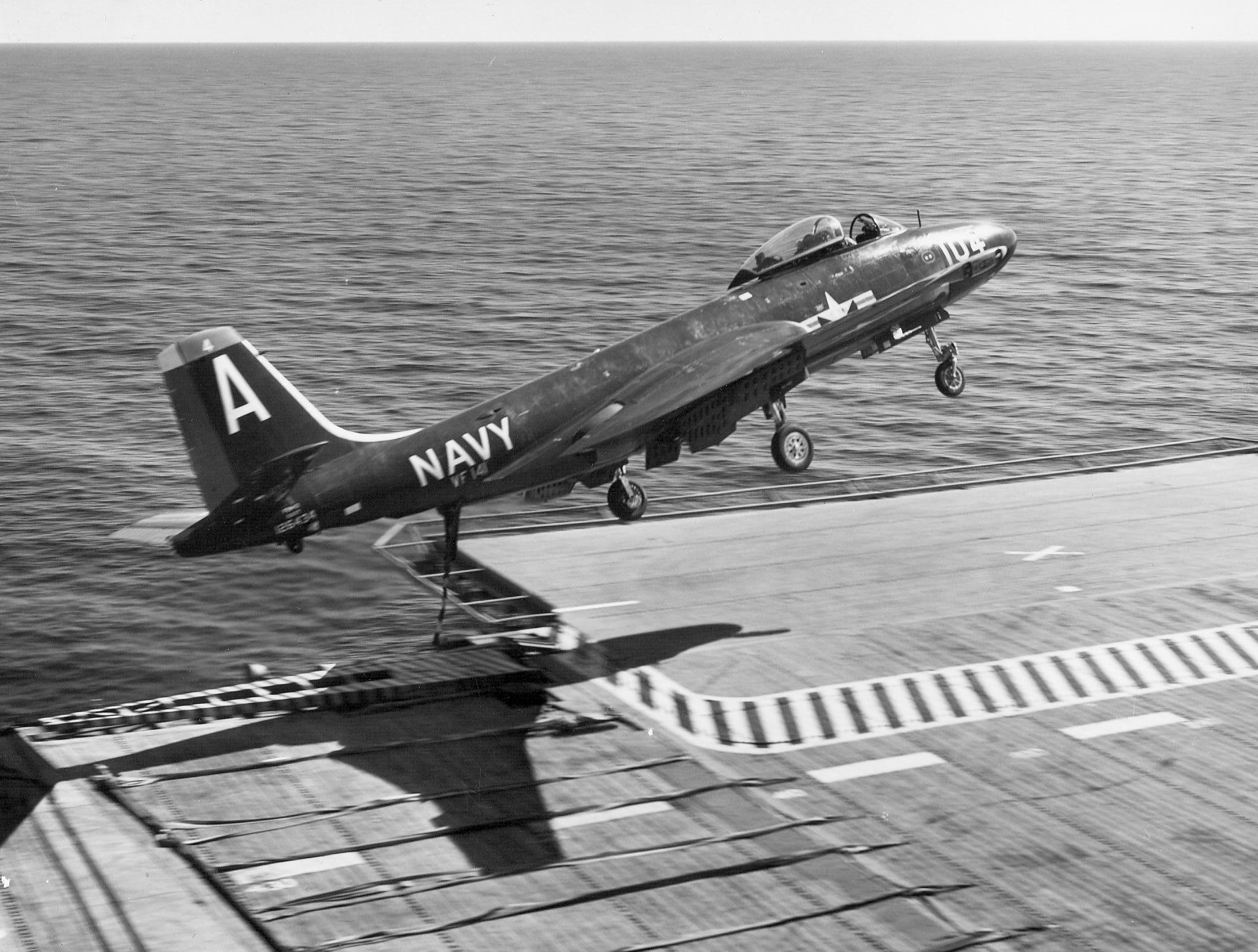 A U.S. Navy McDonnell F2H-3 Banshee (BuNo 126434) of Fighter Squadron 141 (VF-141) "Iron Angels" clearing the deck of the aircraft carrier USS Randolph (CVA-15) after a wave-off. VF-141 was assigned to Carrier Air Group 14 (CVG-14) for a deployment to the Medterranean Sea from 3 February to 6 August 1954. The F2H-3 126434 was sold to the Royal Canadian Navy on 2 July 1956. It crashed near Peggy's Cove, Nova Scotia (Canada), on 16 June 1961 while practicing aerobatics. The pilot was killed.